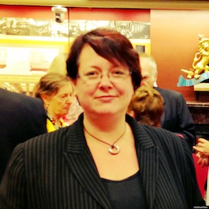 This is a photo of Penny Sharpe MLC at a Christmas party in November of 2012, NSW Parliament House, Sydney.